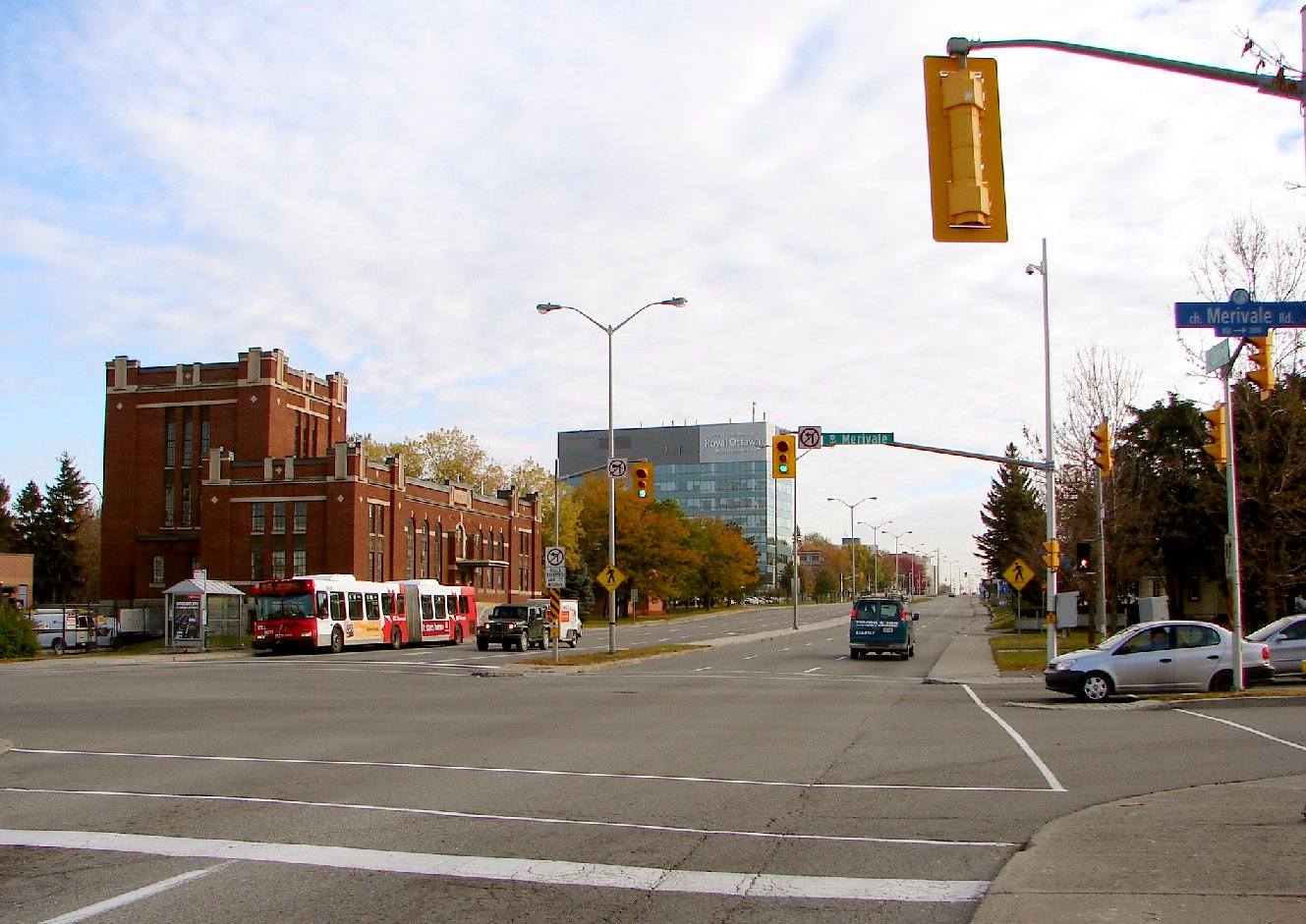 Carling Avenue at Merival Road, Ottawa, Ontario, Canada